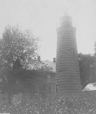 Cumberland Lighthouse on Cumberland Bay on Lake Champlain in New York